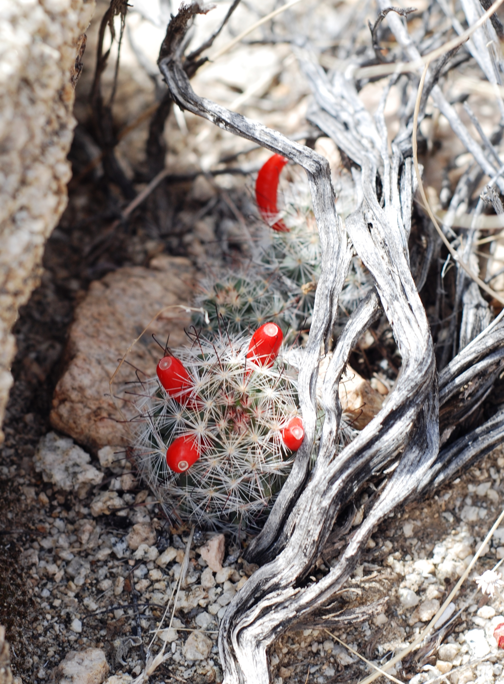 Fishhook cactus (Mammillaria tetrancistra) in the Rattlesnake canyon near Indian Cove in Joshua Tree National Park